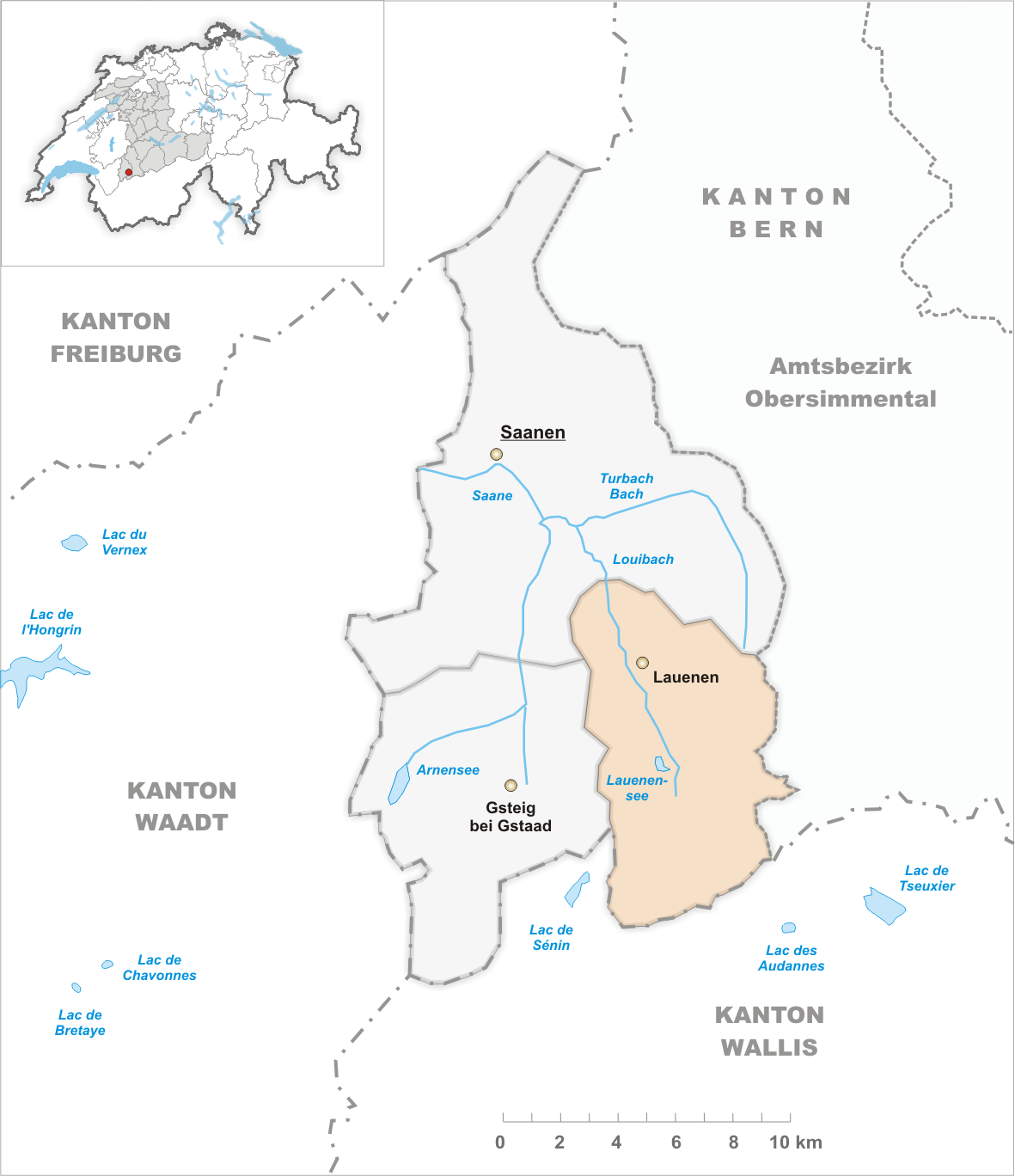 Municipality Lauenen